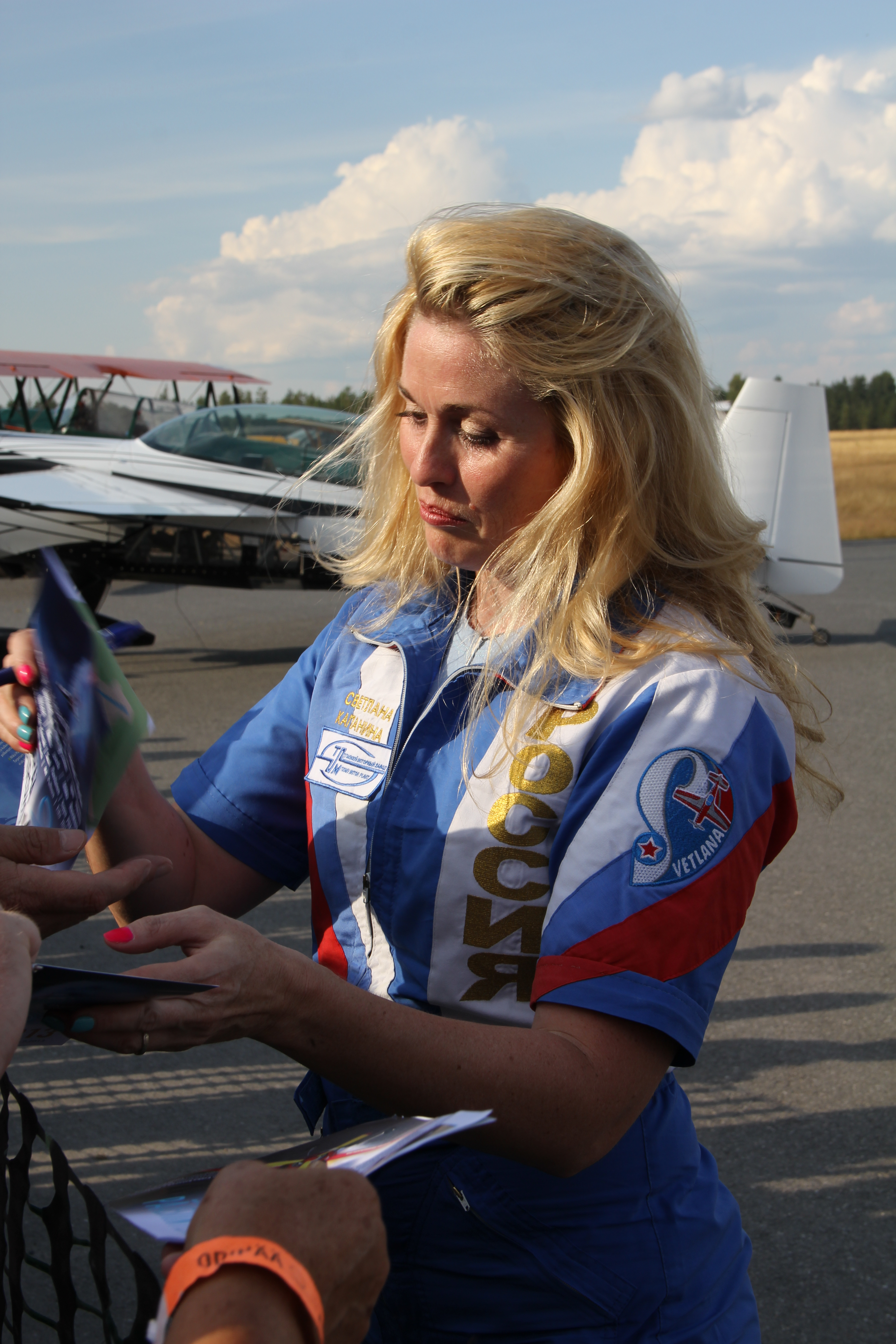 Svetlana Kapanina (RUS) after Oripää Airshow 2013, focusing on signing autographs, Oripää, Finland.